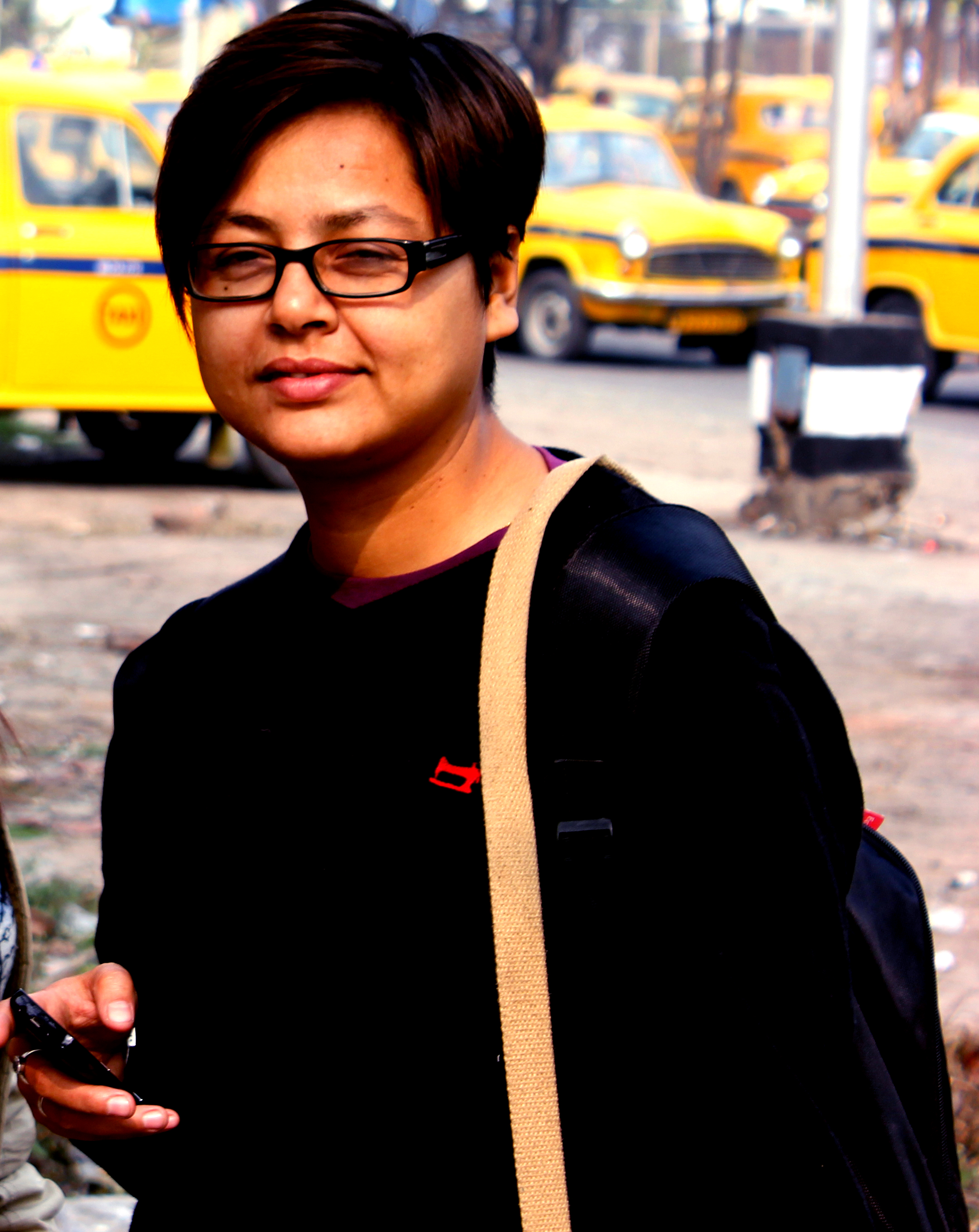 It's a photograph of Simple Gogoi